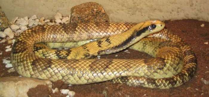 False water cobra, male